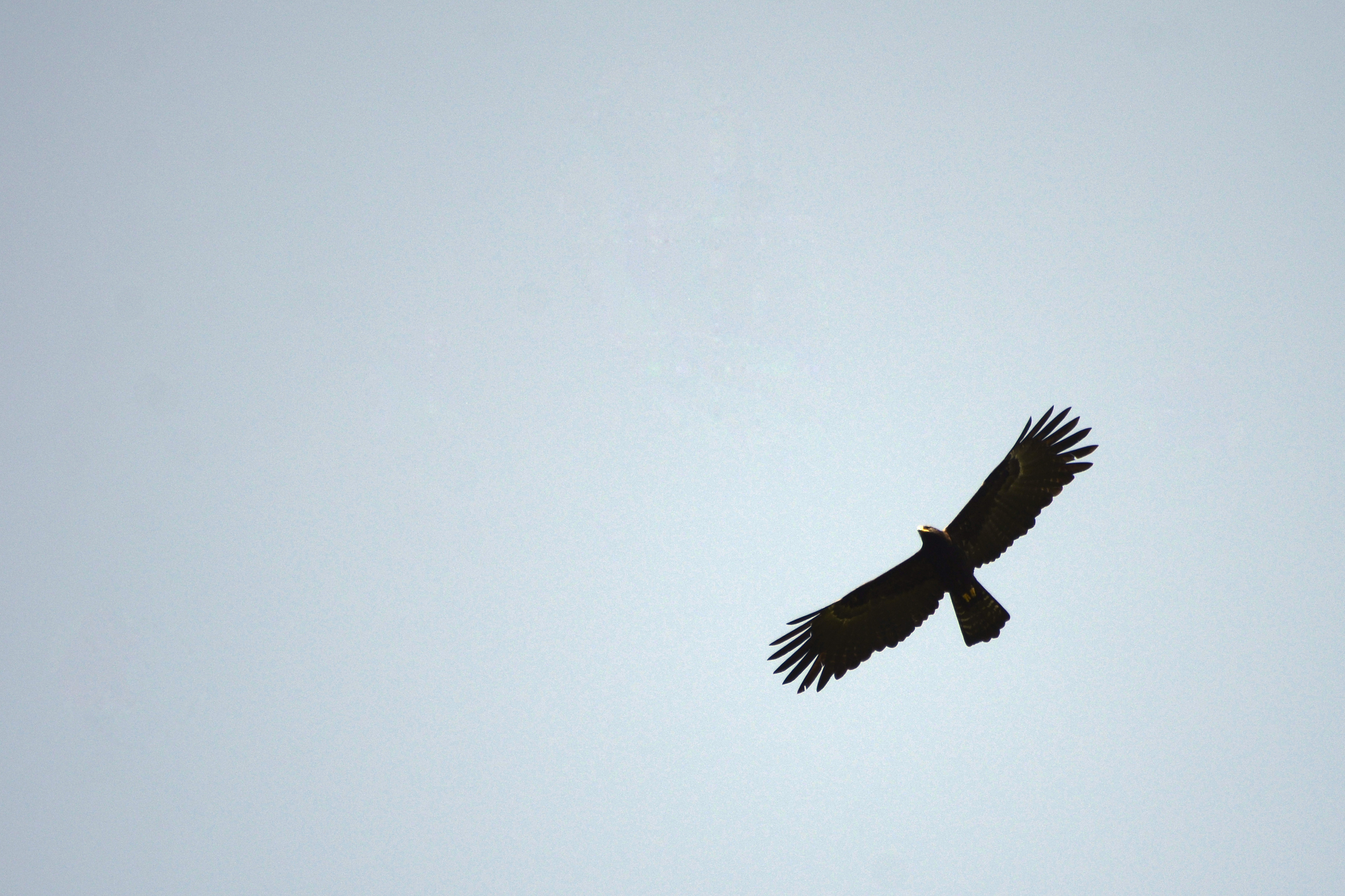 Black Eagle Ictinaetus malayensis in flight /கருங்கழுகு